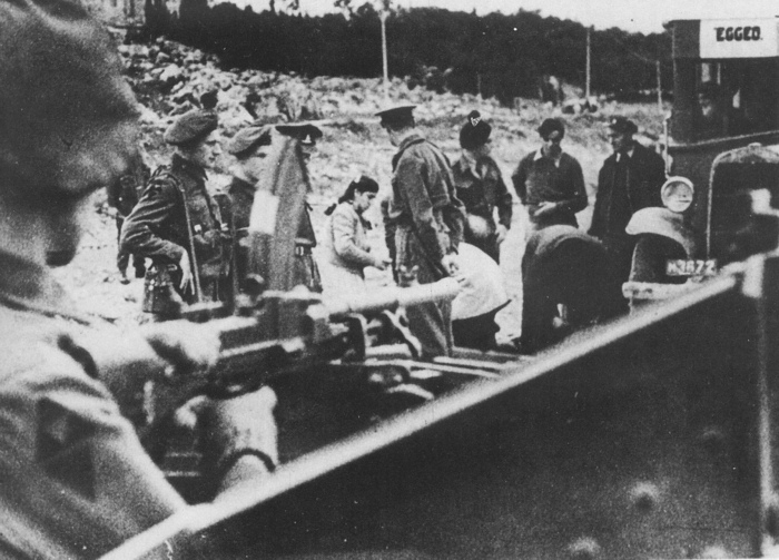 British checkpoint at the entrance to Tel-Aviv on the Jerusalem-Tel Aviv road.